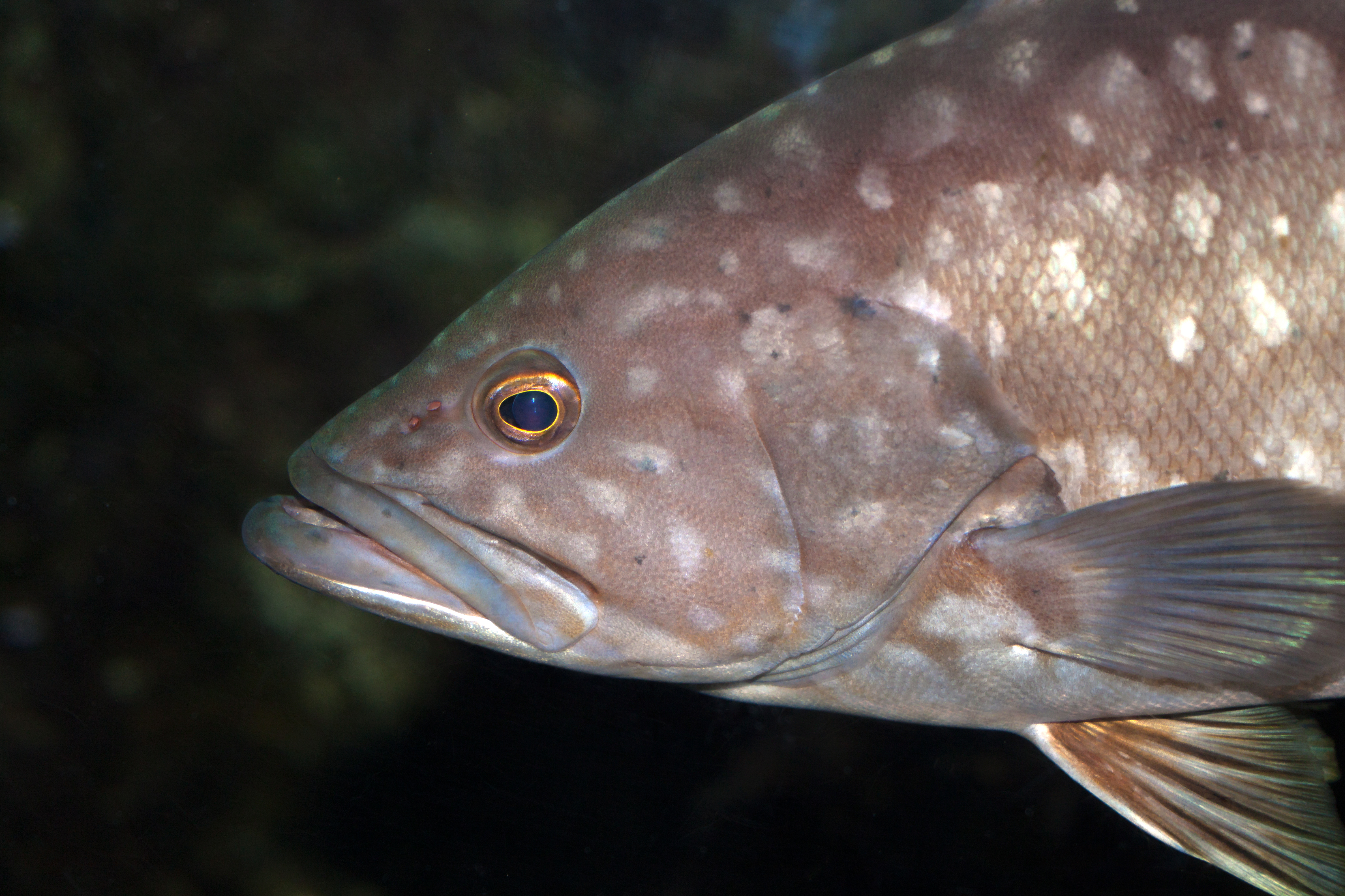 Epinephelus marginatus (Lowe, 1834), Dusky Grouper; Palmitos Park, Gran Canaria, Canary Islands, Spain.